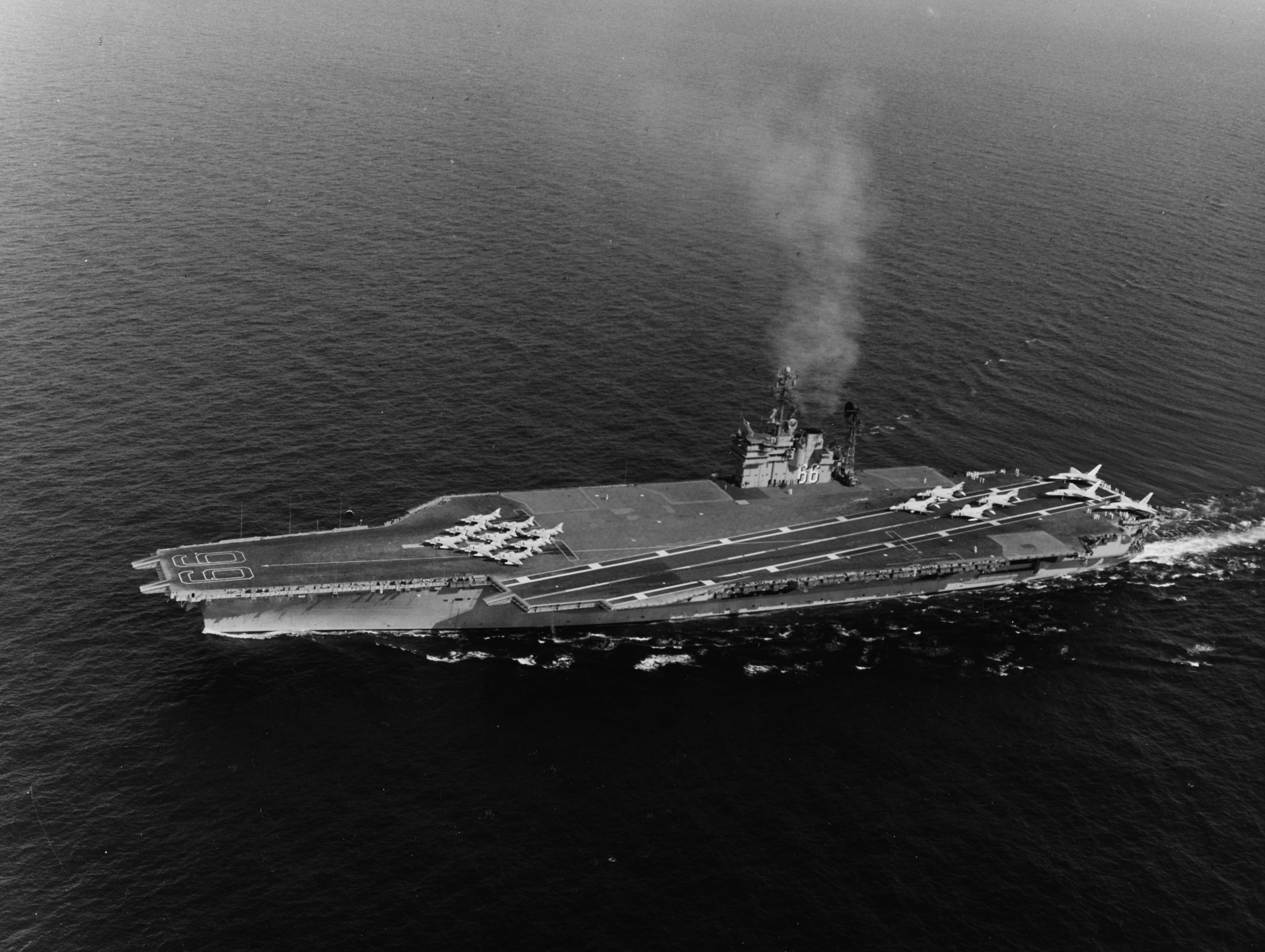 The U.S. Navy aircraft carrier USS America (CVA-66) underway on 31 August 1965. Aircraft parked on her flight deck include nine Douglas A-4 Skyhawk attack planes, four McDonnell F-4B Phantom II fighters and three North American RA-5C Vigilante reconnaissance planes.